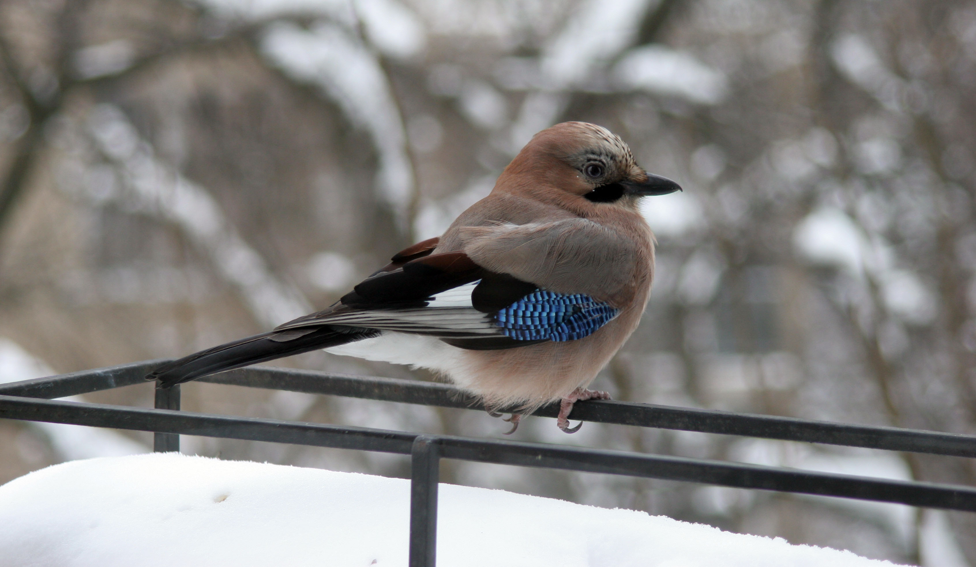 eurasian jay (garrulus glandularis)